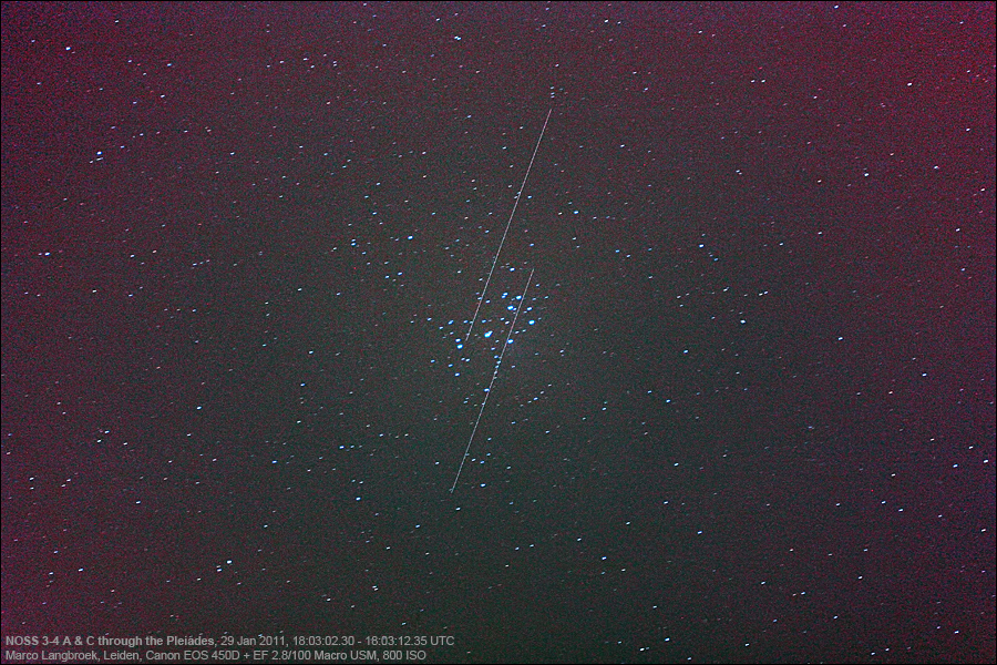 The NOSS 3-4 duo (2007-027A & C) crossing through the Pleiades. Photo by Marco Langbroek, the Netherlands, 29 Jan 2011. Movement in this 10 second exposure is from top to bottom, the A object is leading.